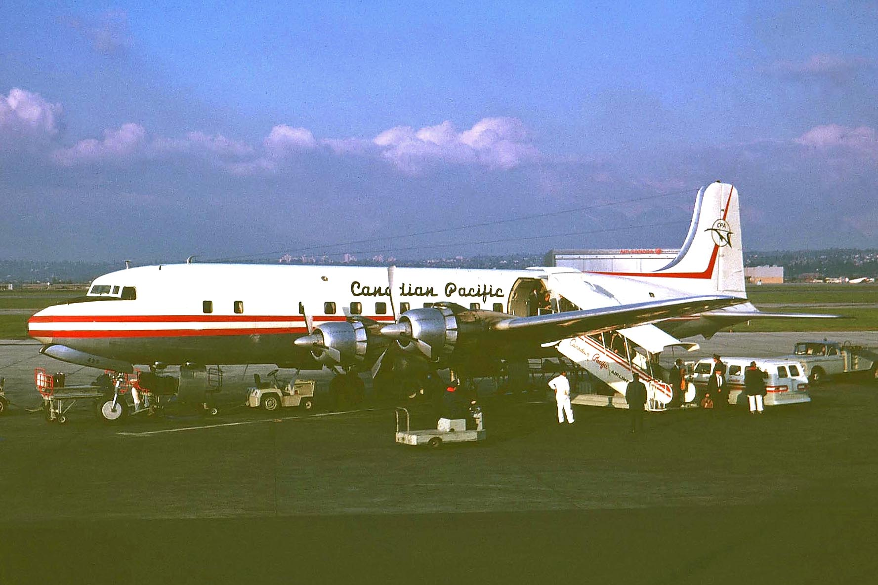 Taken at Vancouver (YVR), BC, Canada on a very cold November afternoon with a very low sun.